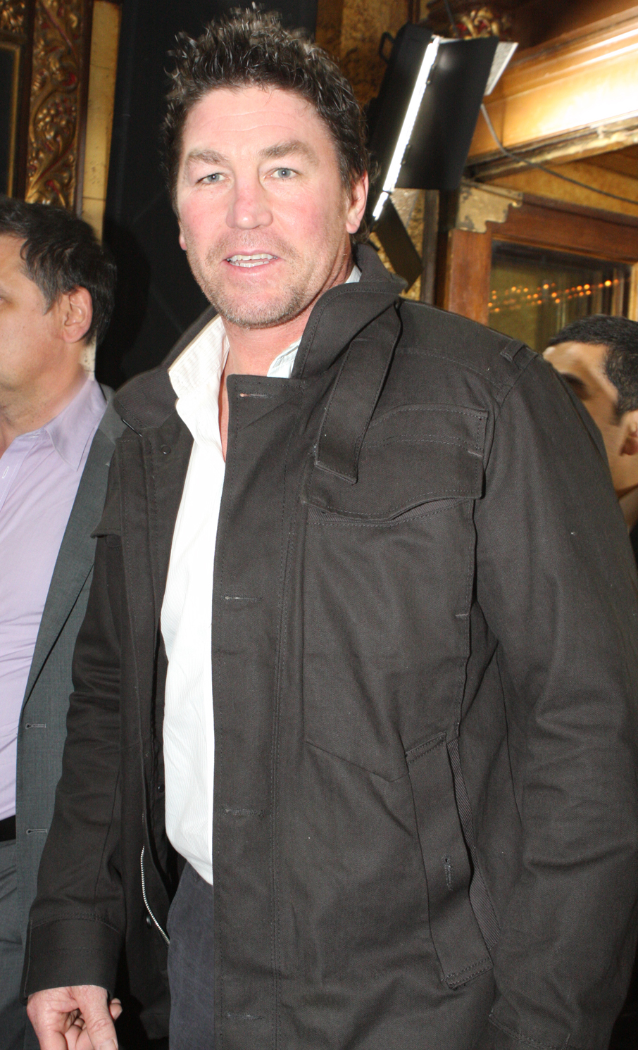 Mark Carroll (rugby league), today Russell Crowe's body guard, at The Sapphires movie premiere at State Theatre, Sydney, Australia